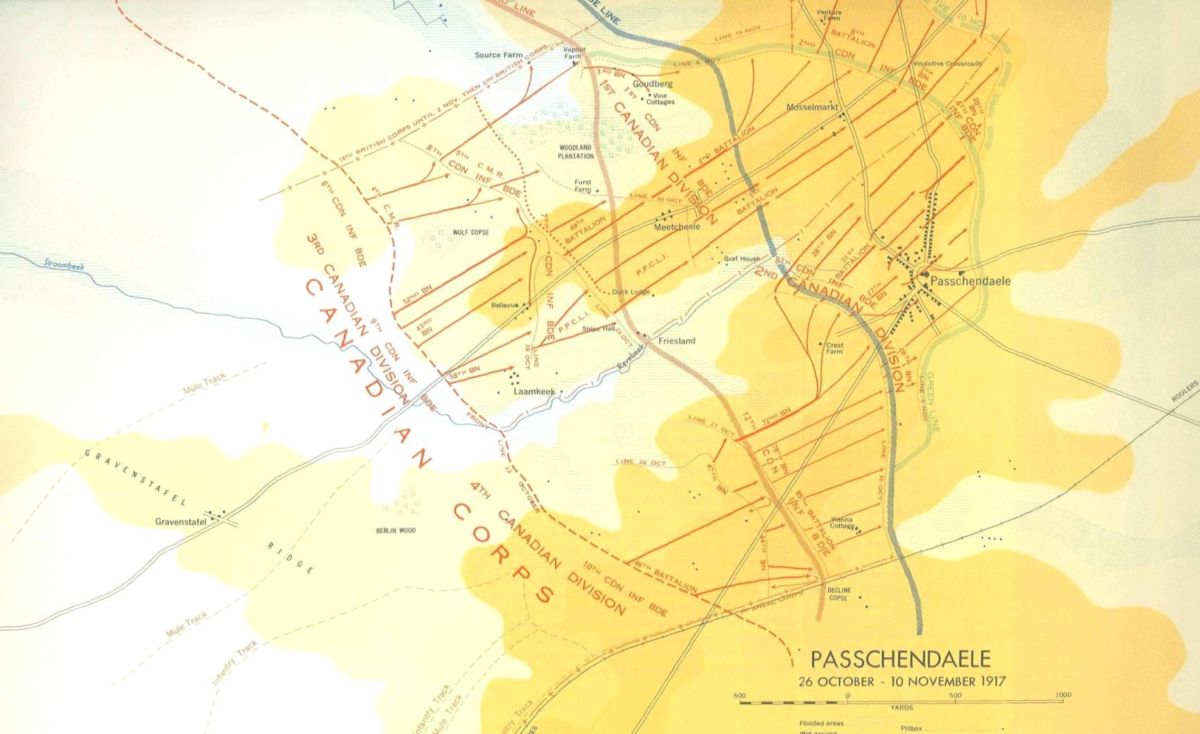 'Map 9 Passchendaele' from Nicholson text, Compiled and drawn by Historical Section of the General Staff, Department of National Defence